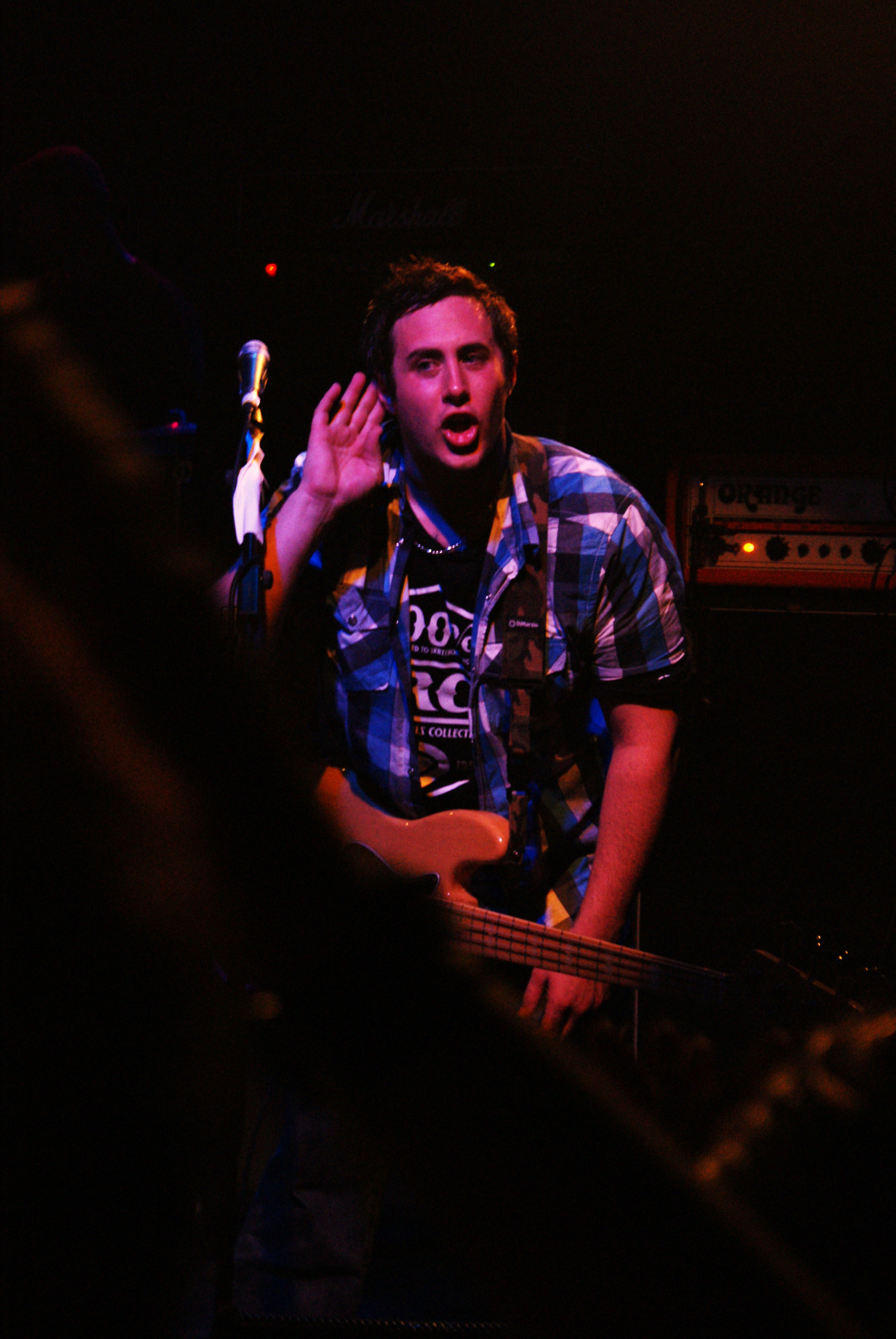 Matt Deis performing with CKY in Colchester, England on July 9, 2009.